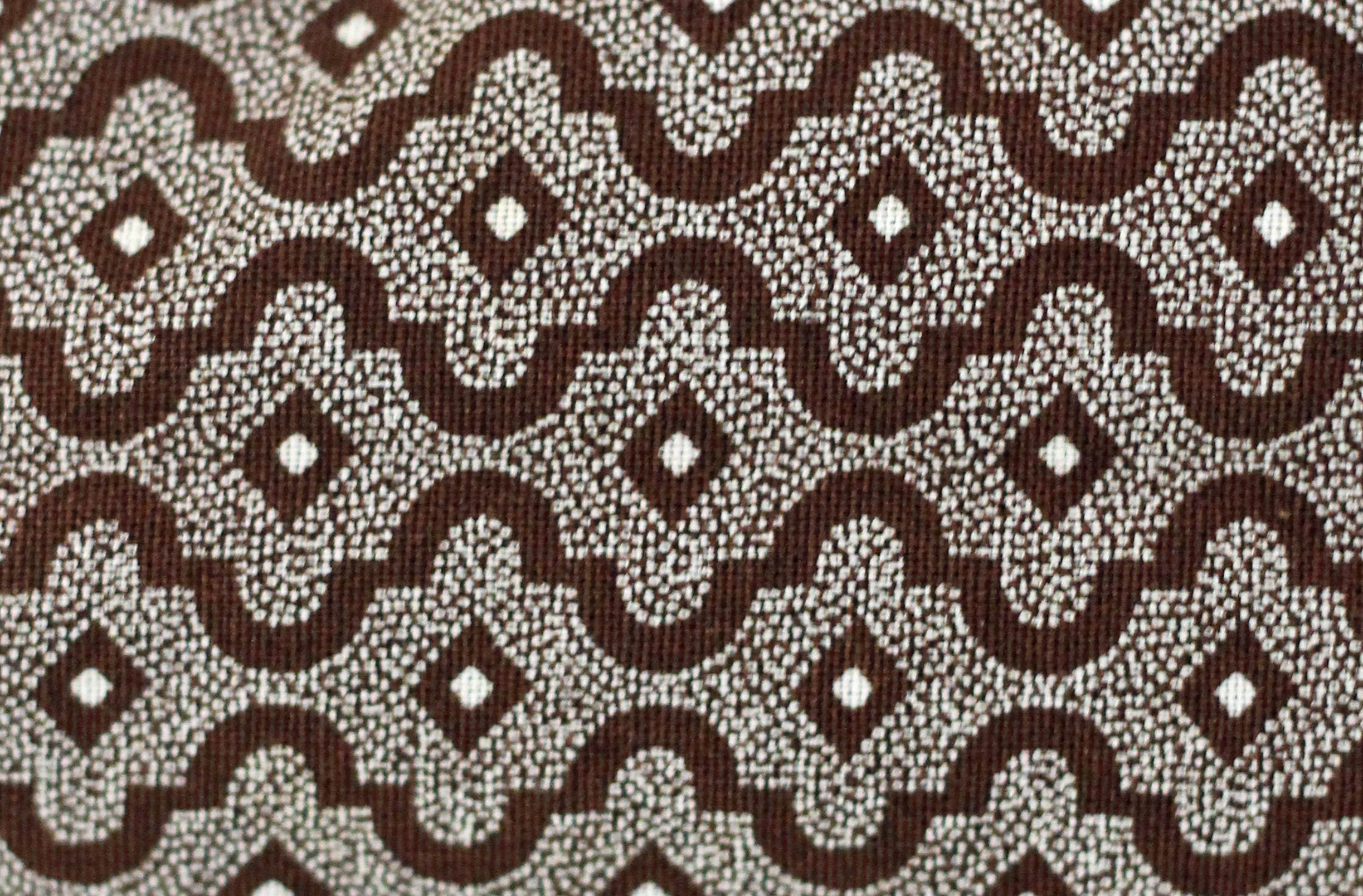 Brown shweshwe fabric (close-up of dress sleeve)